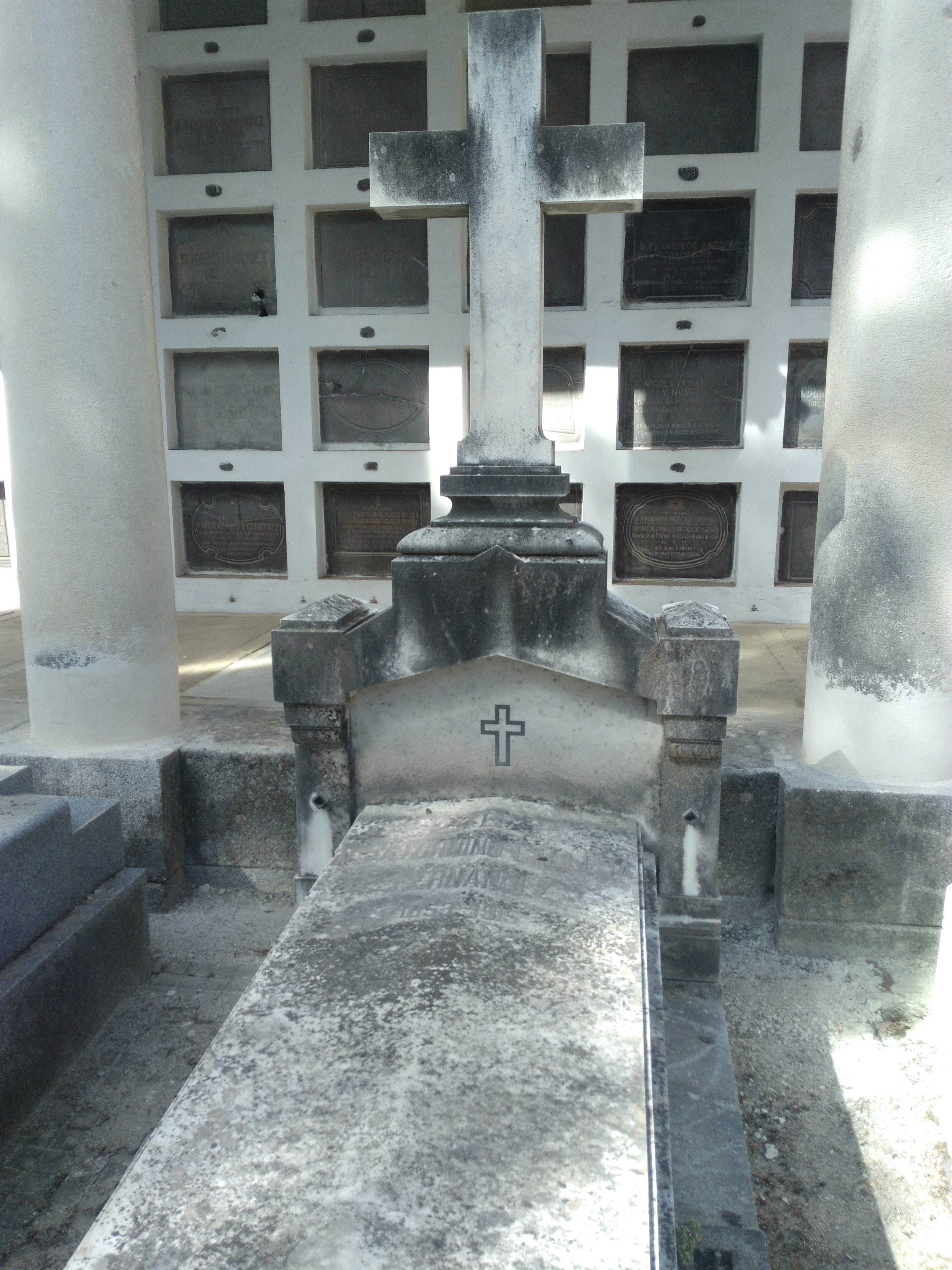 San Isidro Cemetery, Madrid.